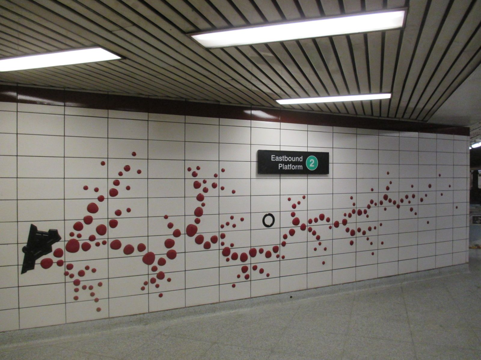 Public art at Ossington subway station, eastbound platform: "Ossington Particles" by Scott Eunson